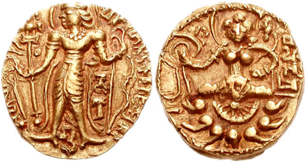 Narasinhagupta I Circa 414-455 AD. AV Dinar (20mm, 9.57 g, 12h). Archer type. Narasinhagupta, nimbate, standing left, holding arrow and bow; to left, Garuda standard behind; "Gre" in Sanskrit between feet, "Nara" to inner right / The goddess Lakshmi, nimbate, seated facing on lotus, holding diadem and lotus; tamgha to left; "Valaditya" in Sanskrit to right.